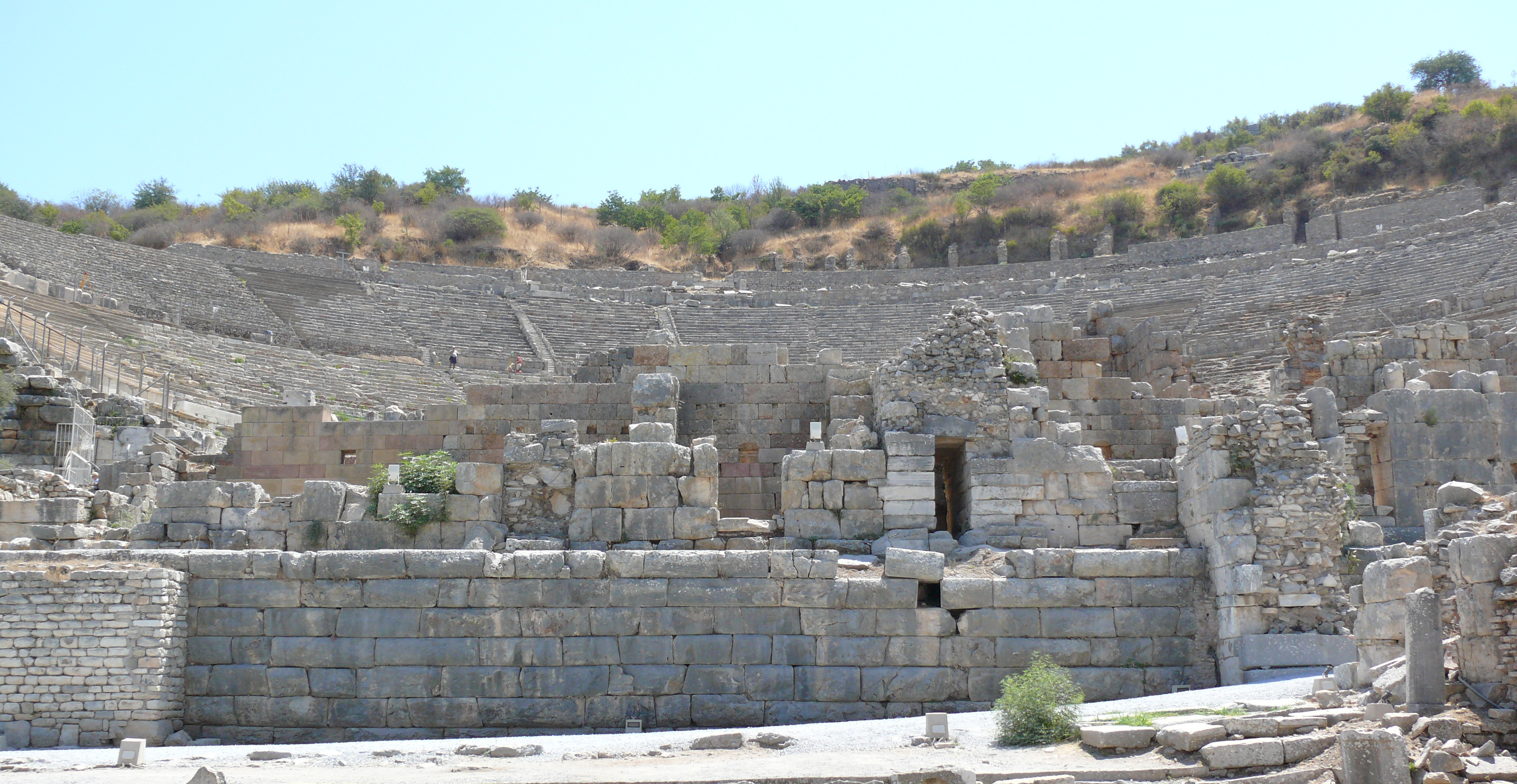 The Great Theater of Ephesus At an estimated 25,000 seating capacity, it is believed to be the largest outdoor theater in the ancient world.